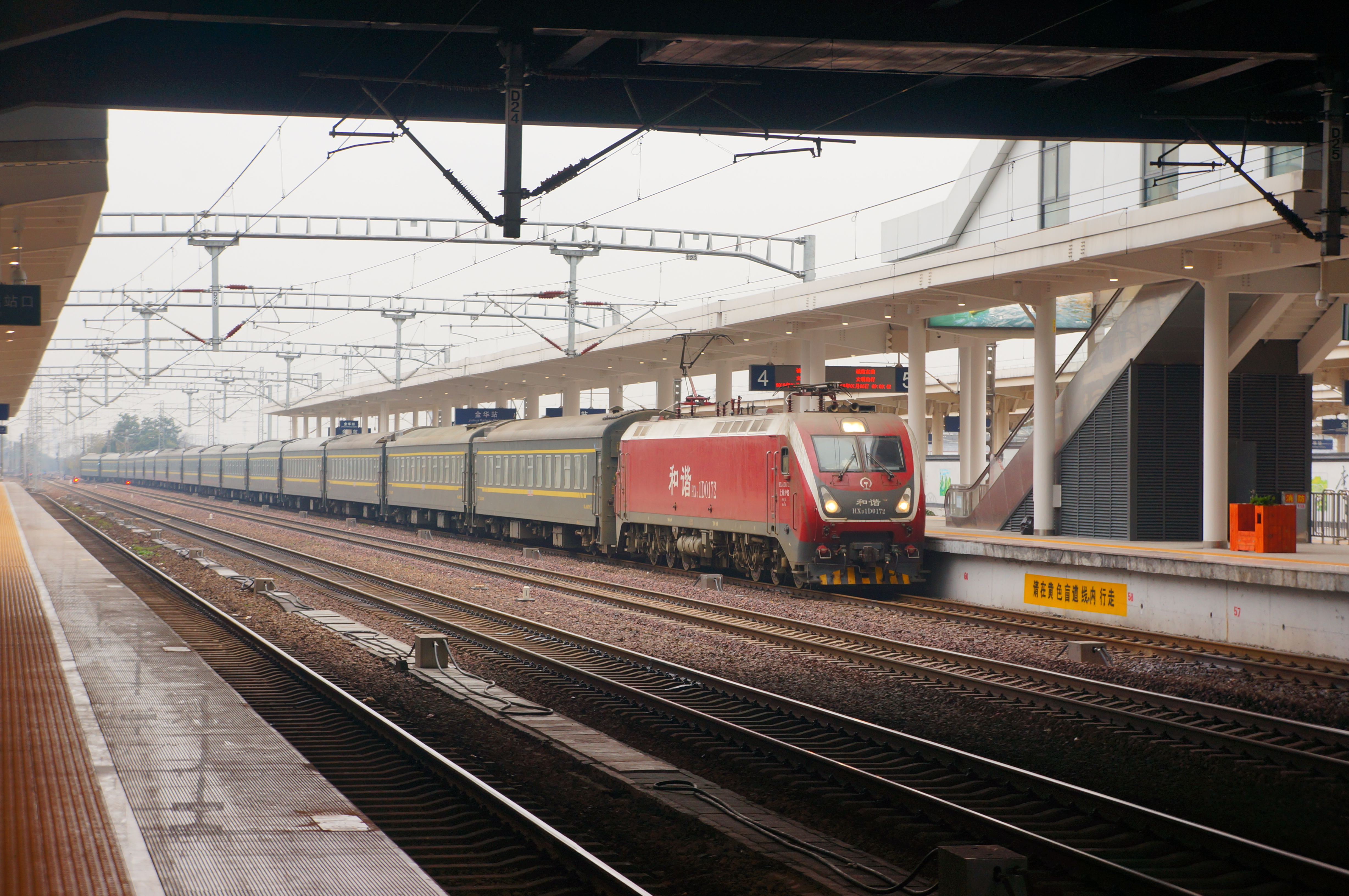 K740 from Kunming to Shanghainan. Still no passenger service at Jinhua today.